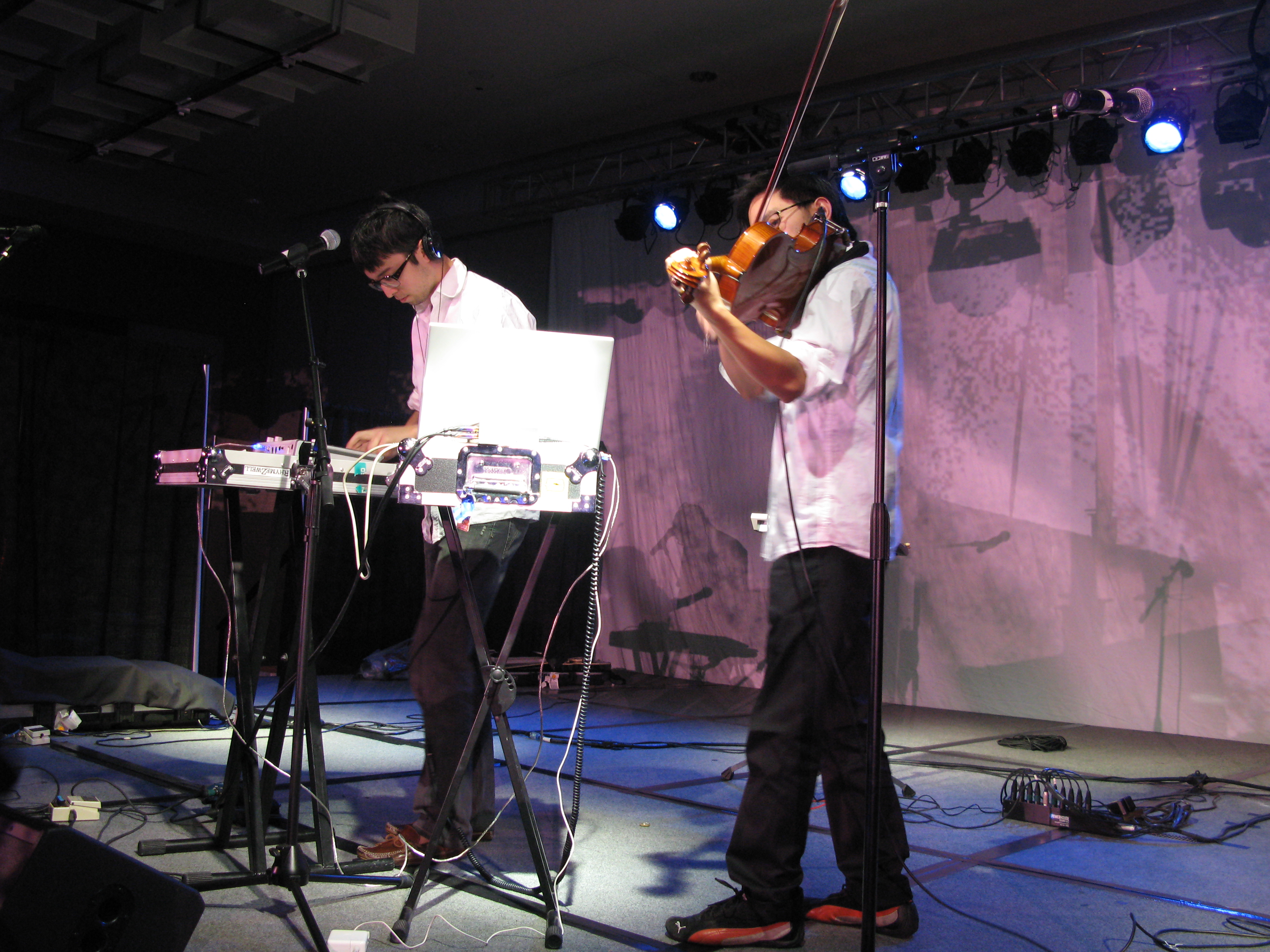 jussi was kind enough to take some photos during our set! thanks jussi!